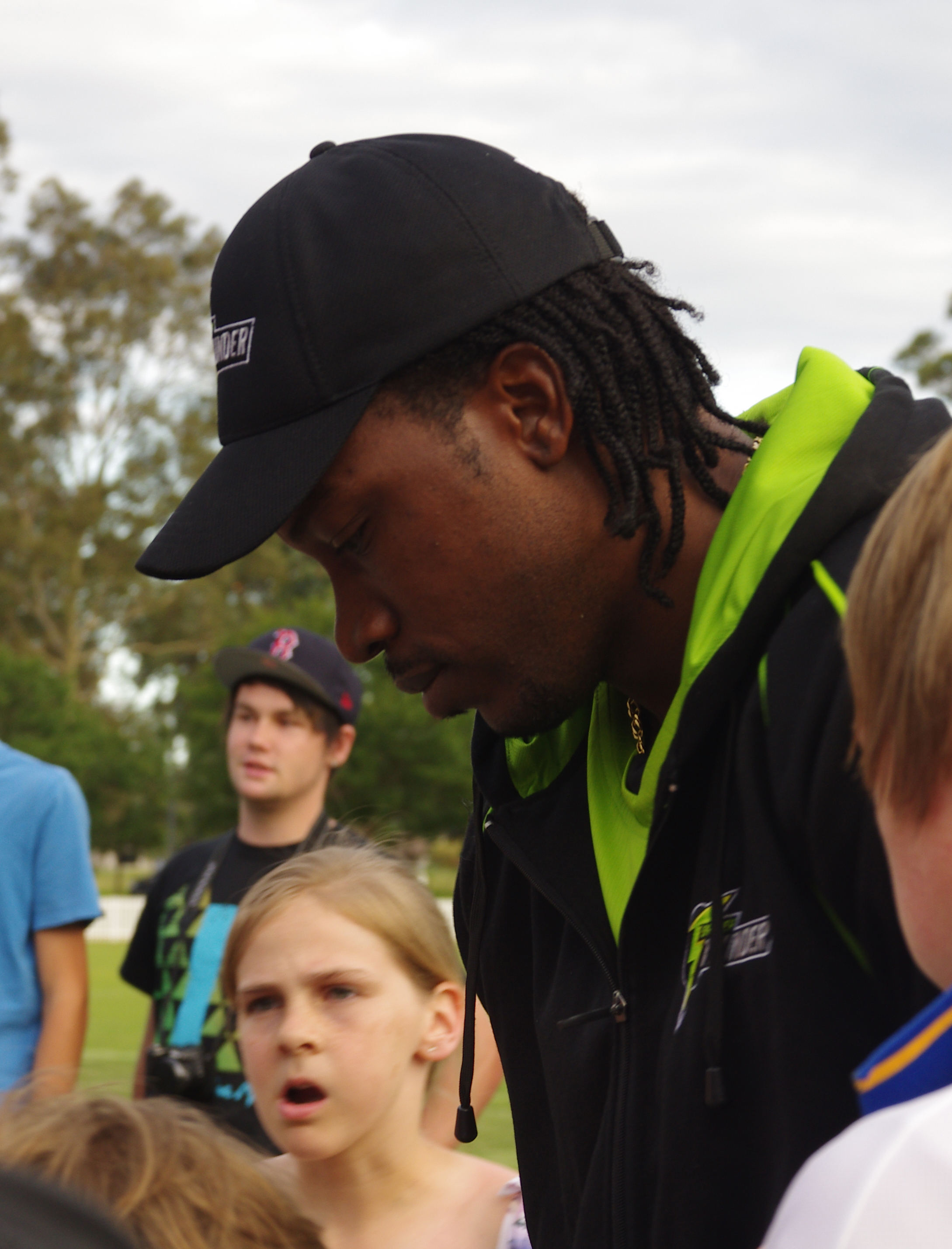 Chris gayle